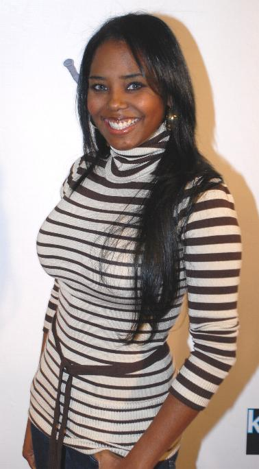 Shar Jackson at Kitson and Christopher Brian Resort Collection Launch Event